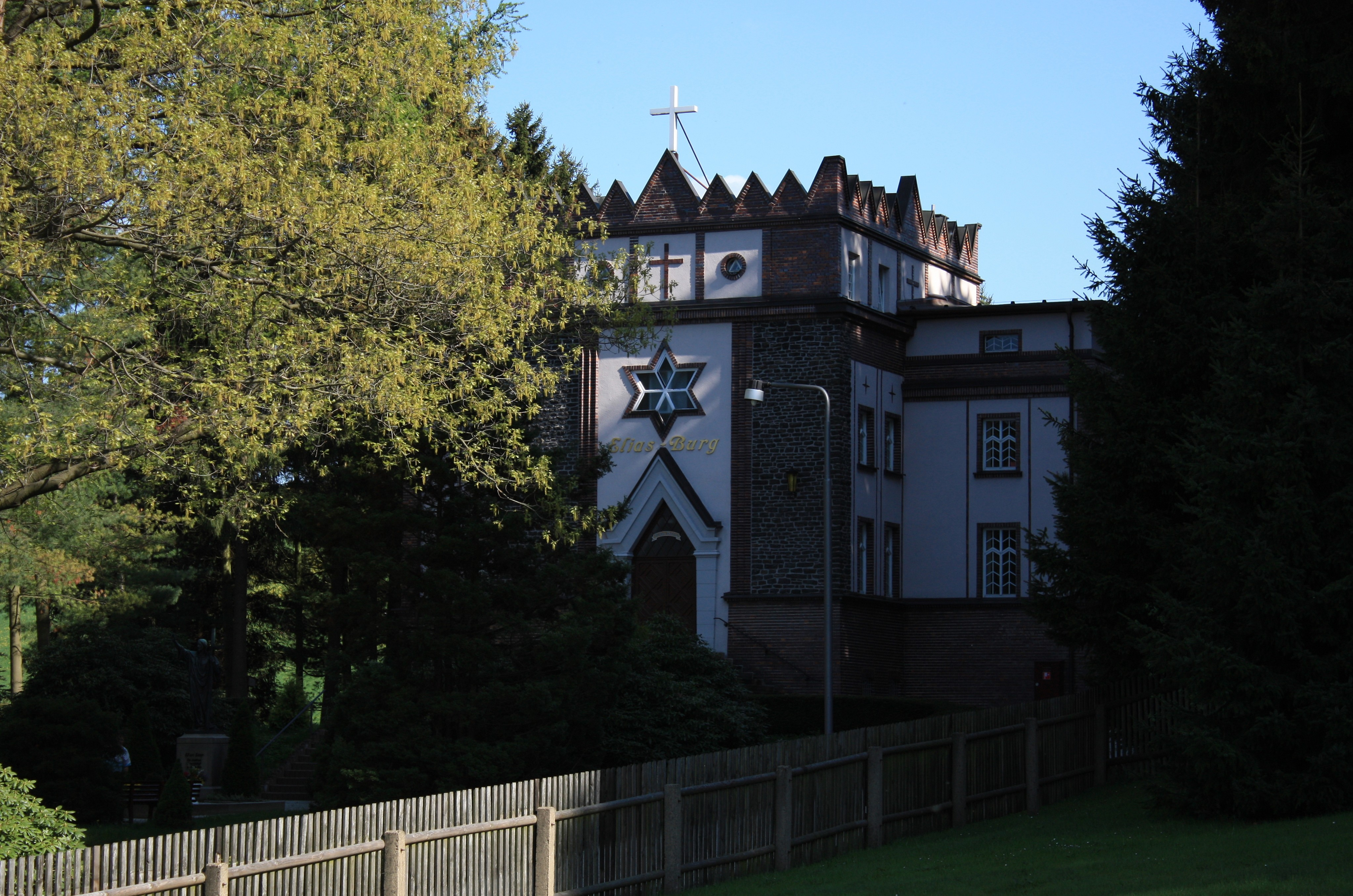 Eliasburg, Pockau